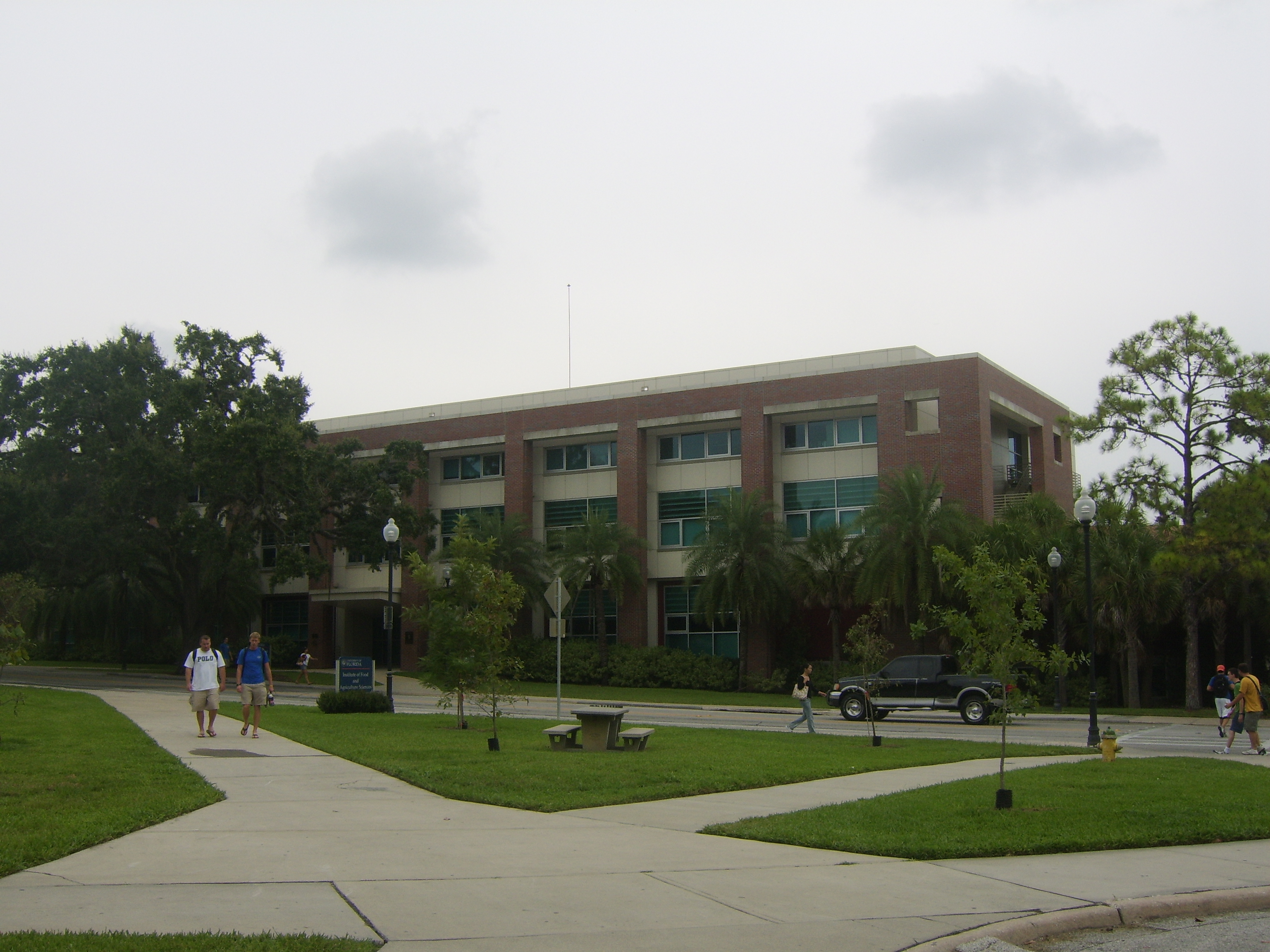 Rinker School of Building Construction at the University of Florida. This was the first building on campus to receive a LEED certification.